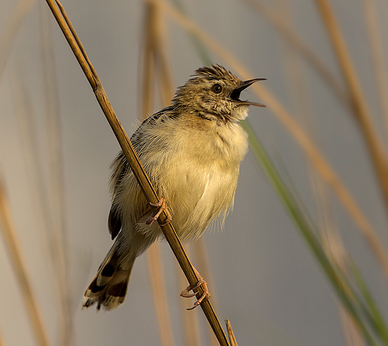 zitting cisticola or streaked fantail warbler (Cisticola juncidis) Singing @ Basai, Gurgaon, Haryana